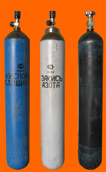 Ballons